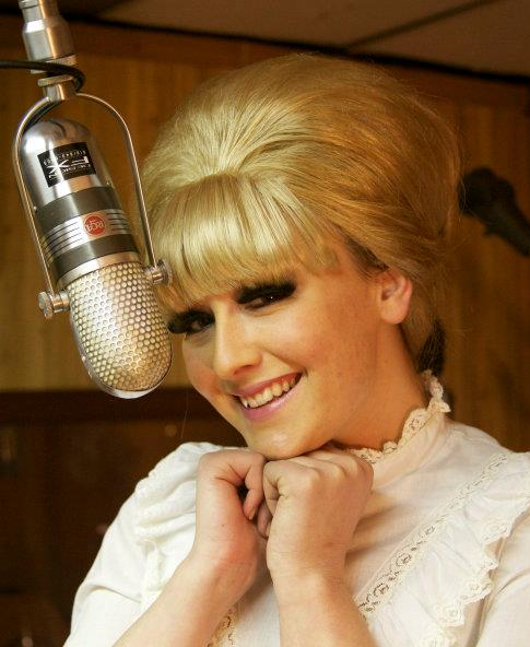 Actress Paige Segal as Dusty Springfield during the making of the film The Soul of Blue Eye.